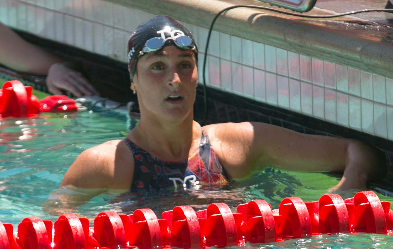 Leah-Smith-after-prelims